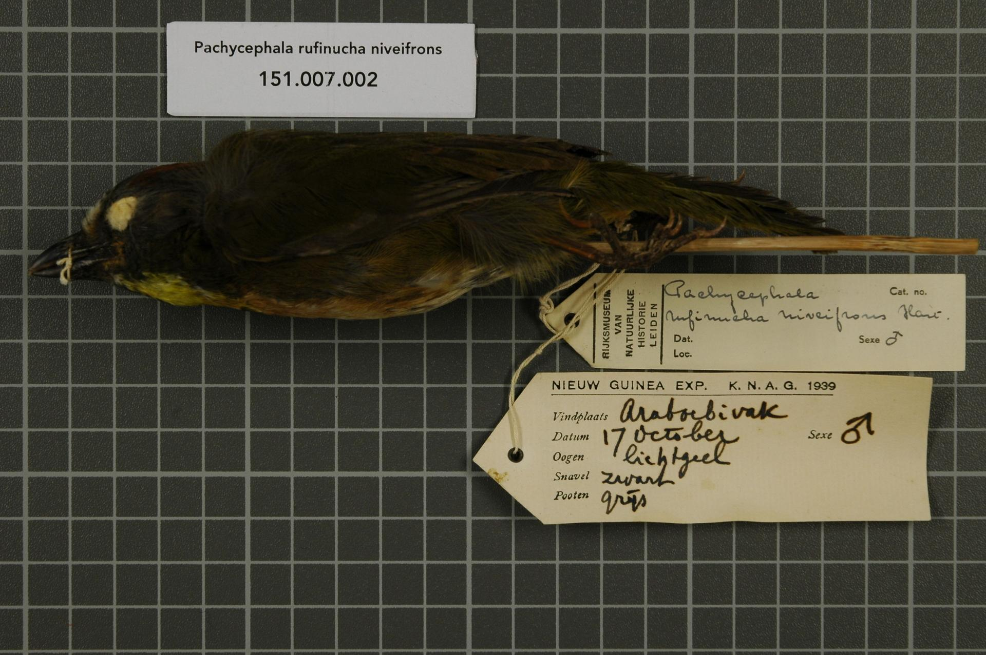 Pachycephala rufinucha niveifrons Hartert, 1930